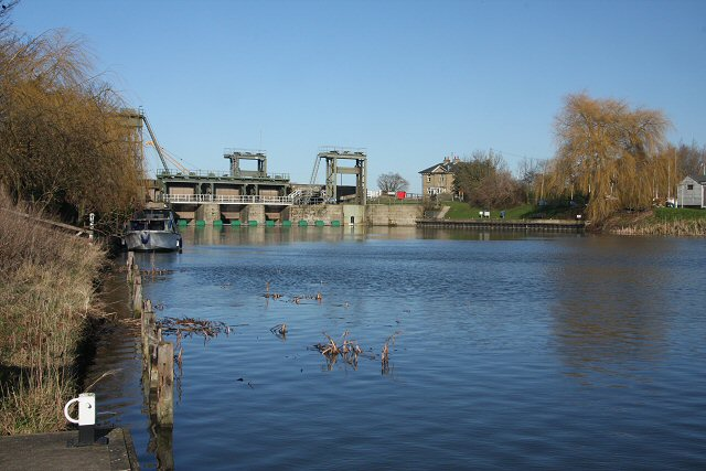 Denver Sluice The main sluice on the River Great Ouse that controls water levels in the Fens.